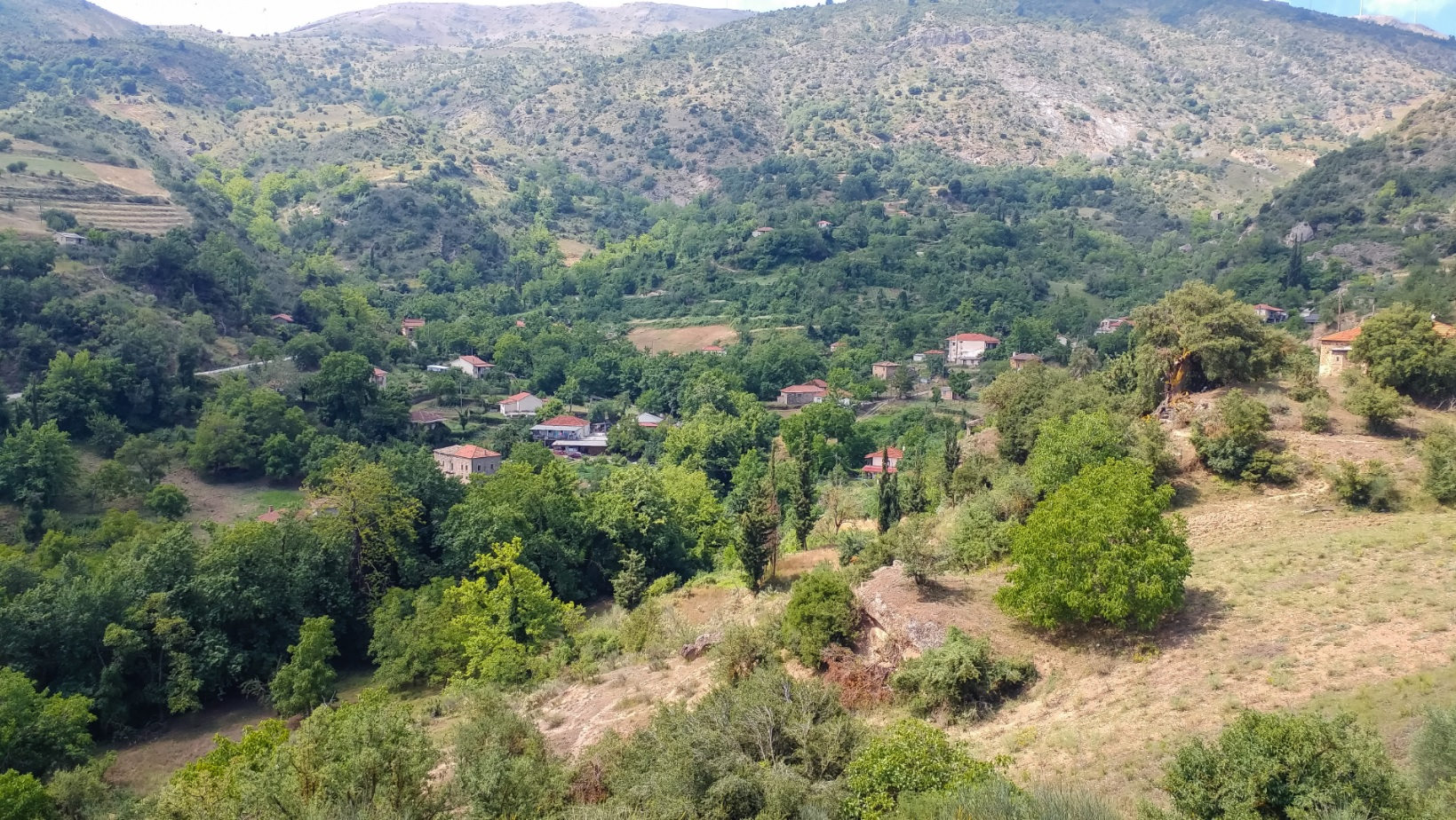 Doumena, Achaia, Greece